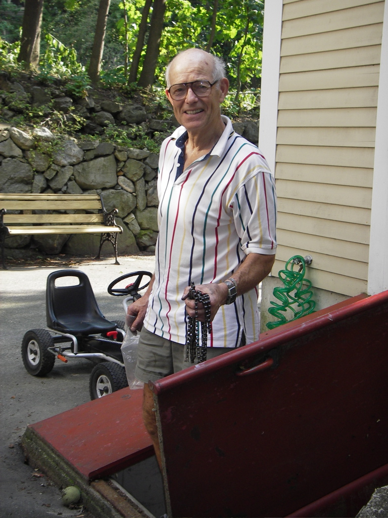 David Gordon Wilson, British-born engineer and professor, in August 2005